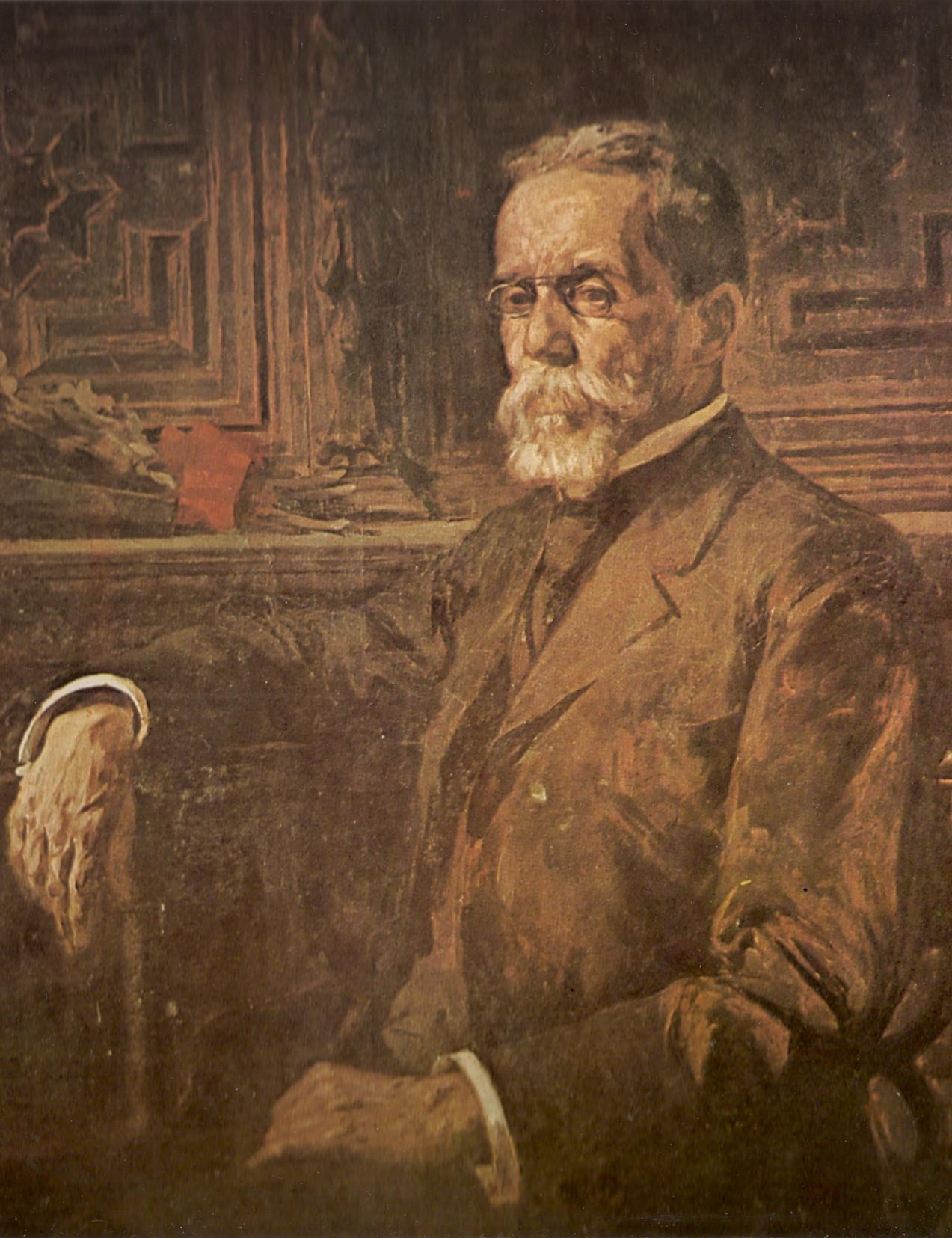 Brazilian writer Machado de Assis.